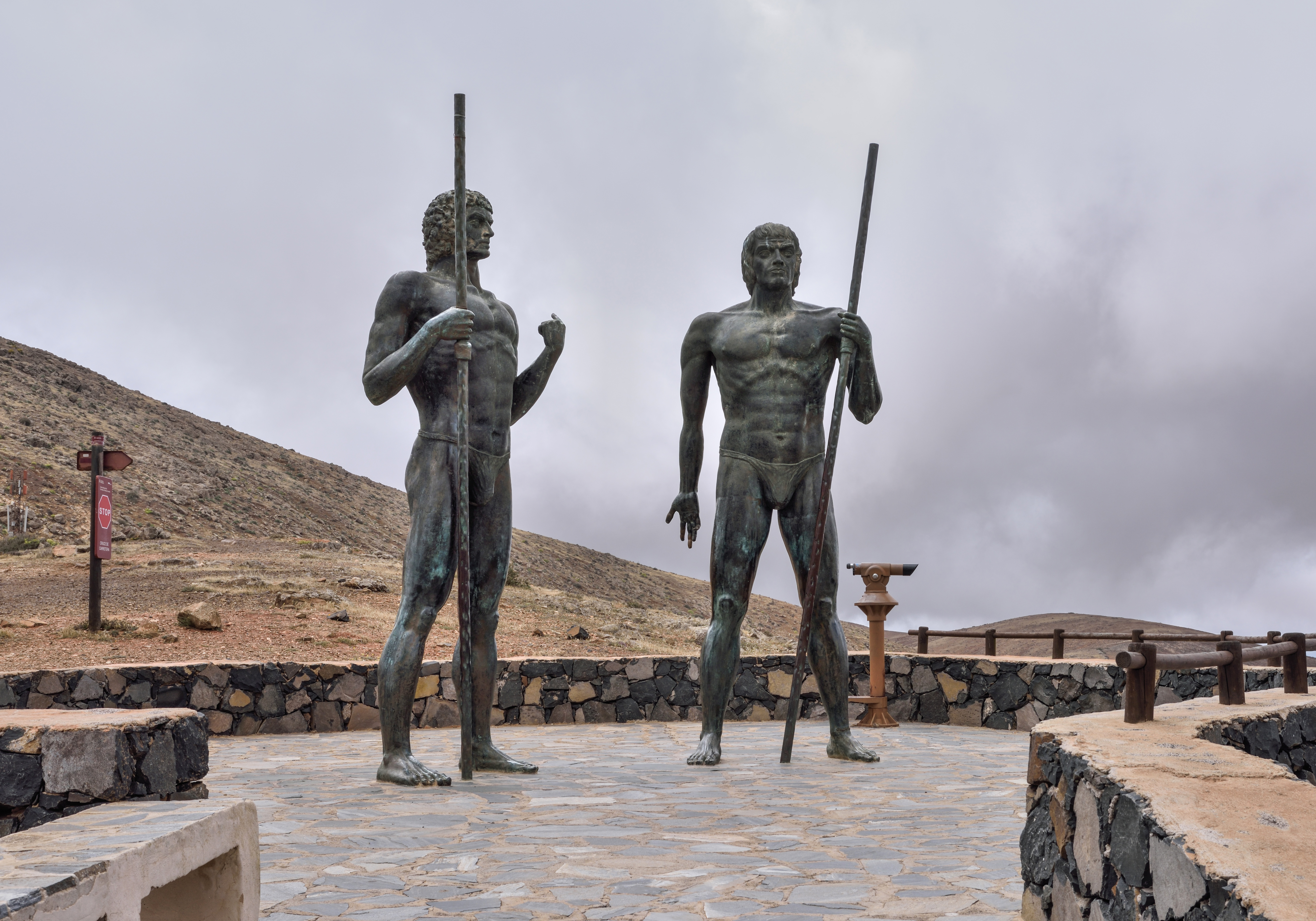 Canary Islands, Fuerteventura: Statues of the Guanche kings Guise and Ayose at the view point carrying their names (mirador de Guise y Ayose). The bronze statues were sculptured by Emiliano Hernández.